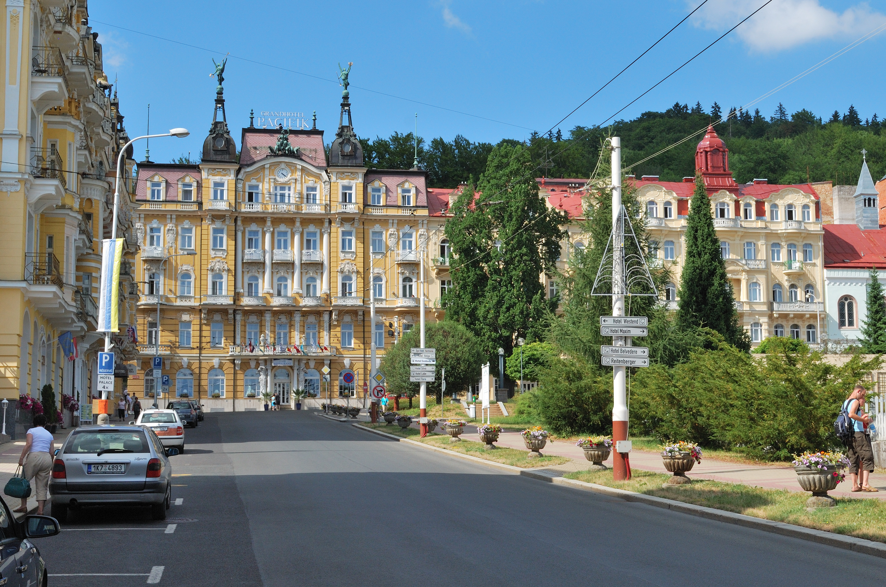 Hlavní třída (Main street) with the Grandhotel Pacifik in Mariánské Lázně in Czech Republic.